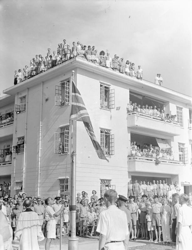 Item Name: THE FAR EAST: SINGAPORE, MALAYA AND HONG KONG 1939-1945 Liberation and Repatriation August - September 1945: The Union Jack is raised at Stanley Civil Internment Camp, Hong Kong, watched by the internees.